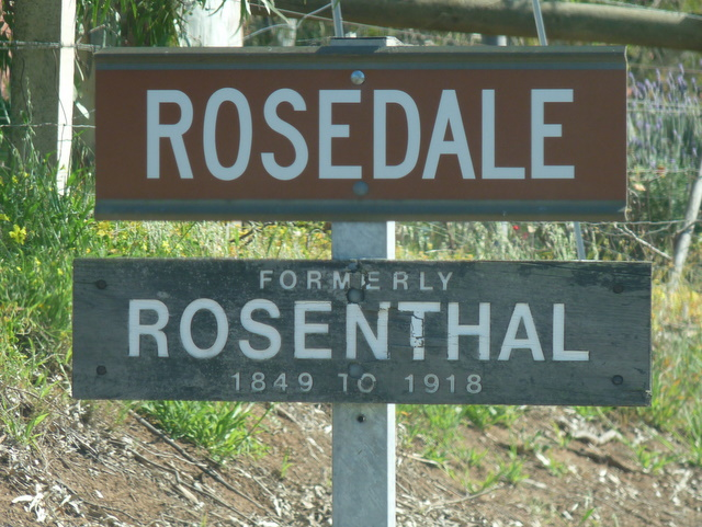 The other roadside sign showing the former name of Rosedale as being Rosenthal